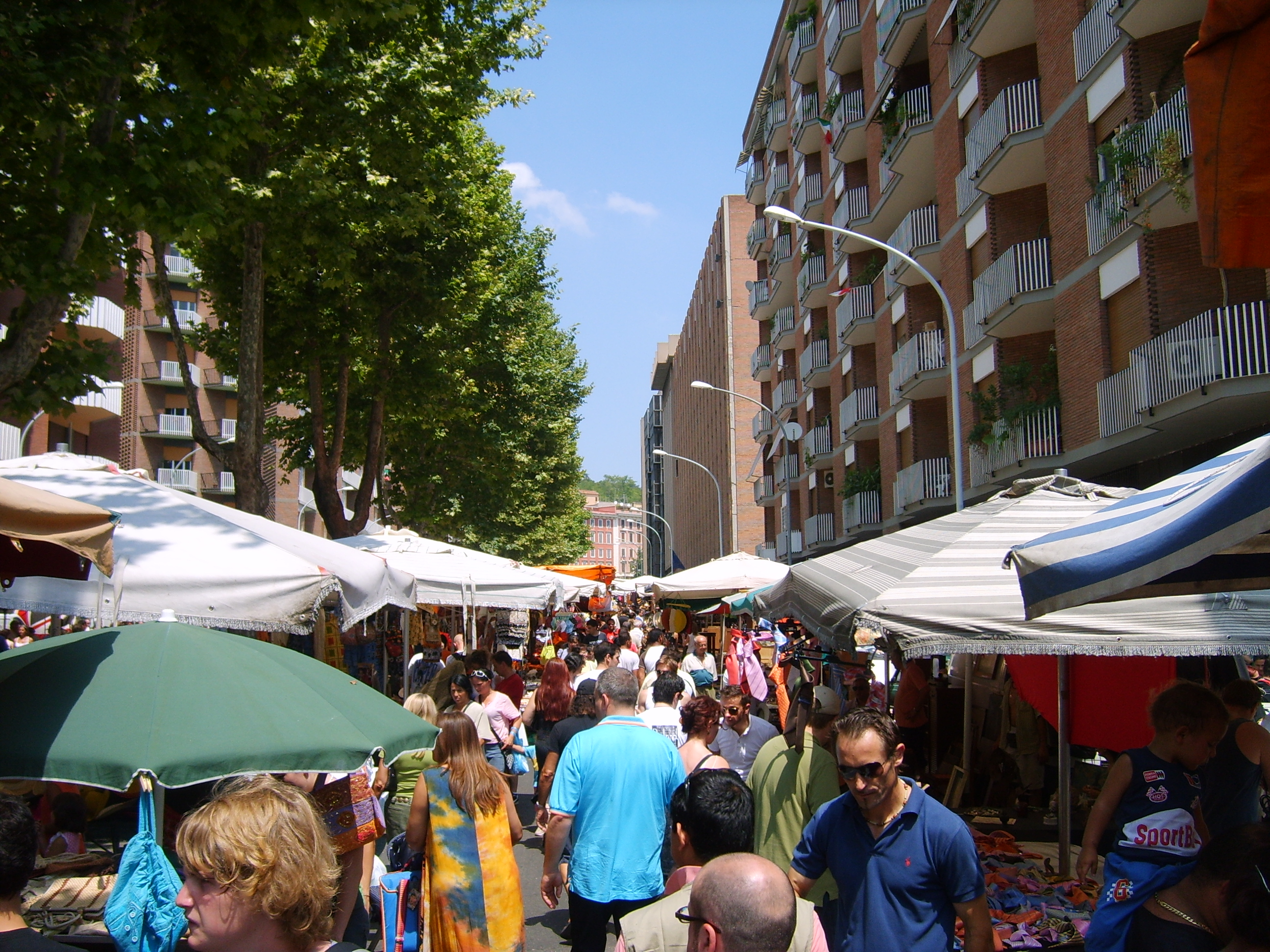 View of the street market of Porta Portese in Rome, Italy, on Sunday morning